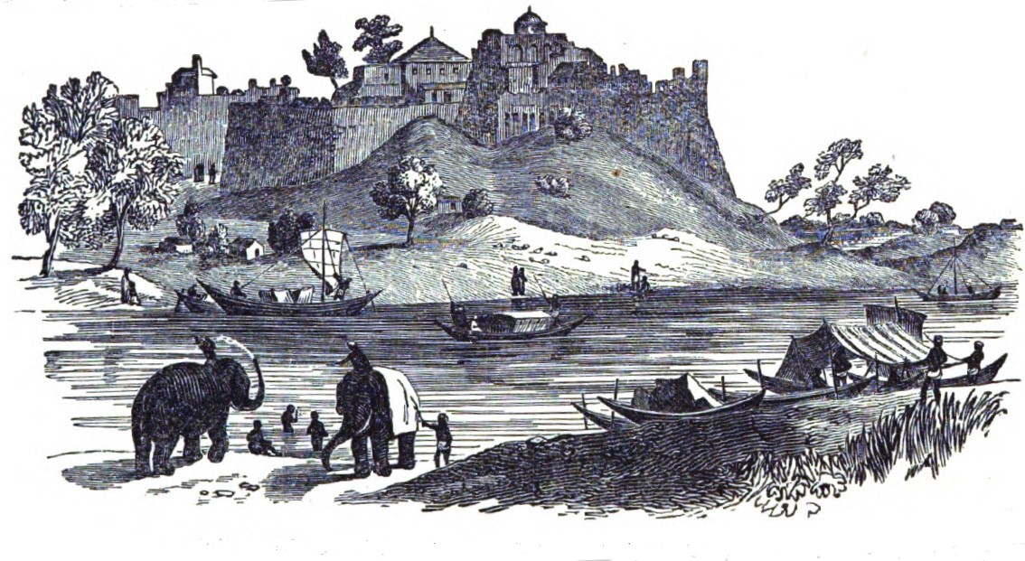 View at Juanpore, on the River Ganges (IV, June 1847, p.60)